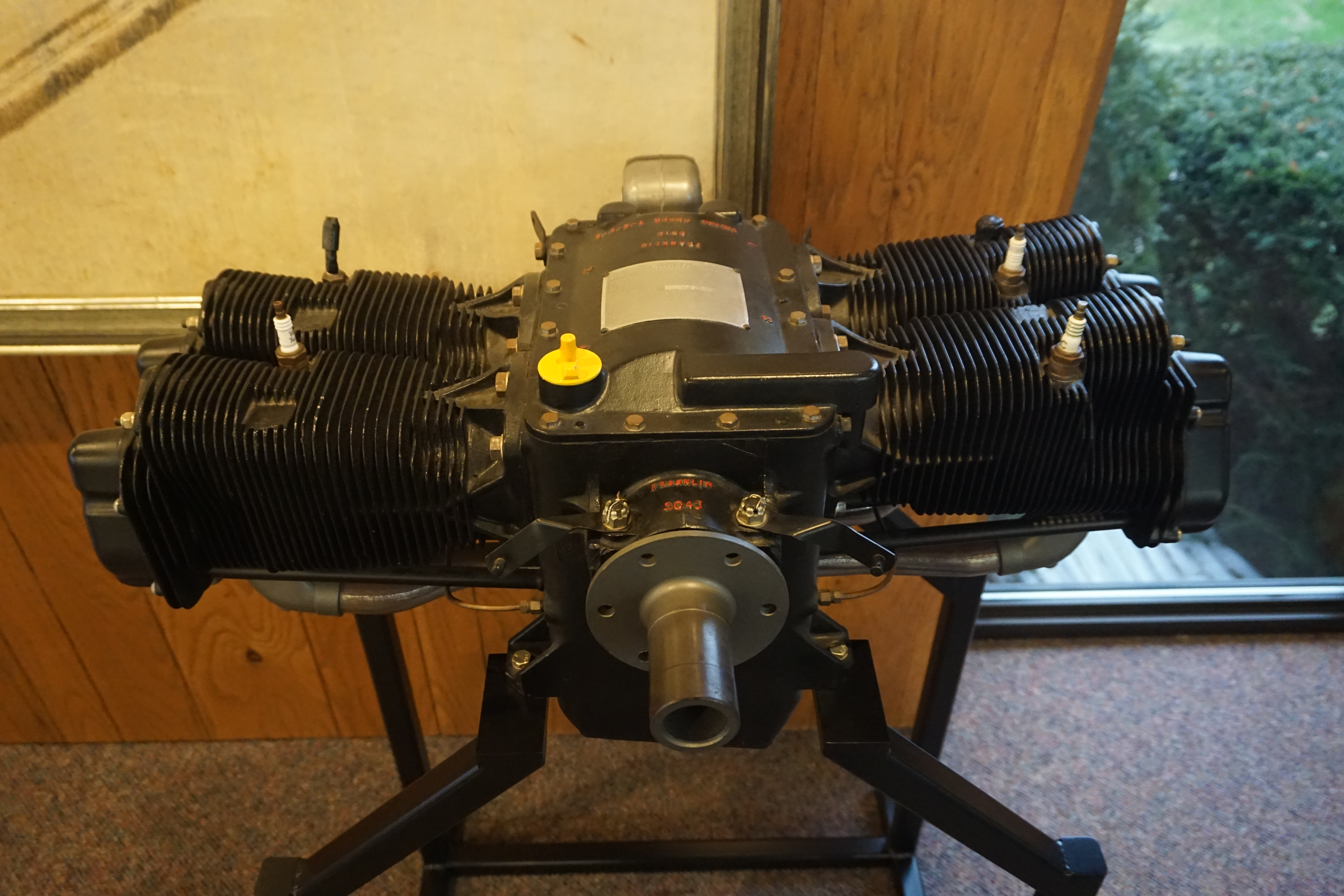 A Franklin Model 4AC150 on display at the Air Zoo at Kalamazoo/Battle Creek International Airport in Portage, Michigan (United States).